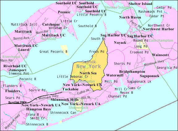 U.S. Census 2000 reference map for North Sea